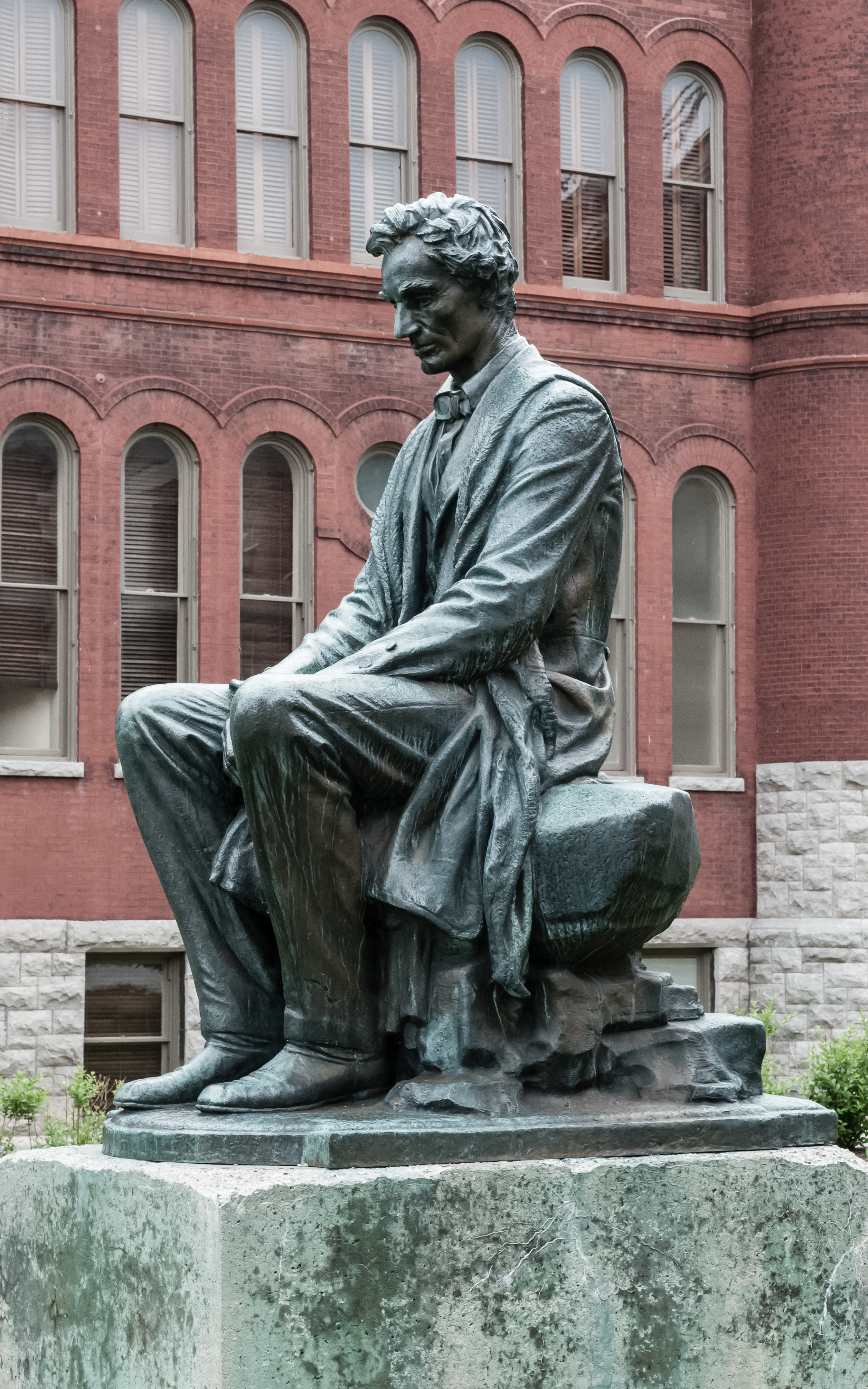 A 1968 cast of the 1930 James Earle Fraser bronze. 1968 details: 1930 details: More details